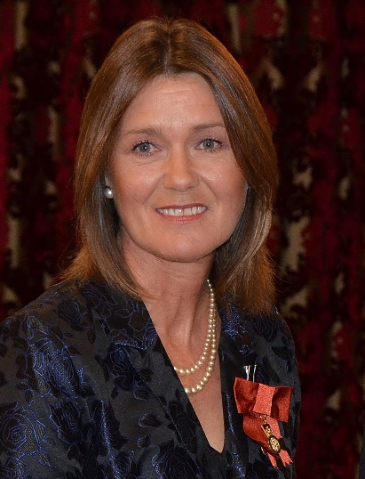 Louise Nicholas, after her investiture as ONZM, for services to the prevention of sexual violence, at Government House, Wellington, on 8 September 2015.